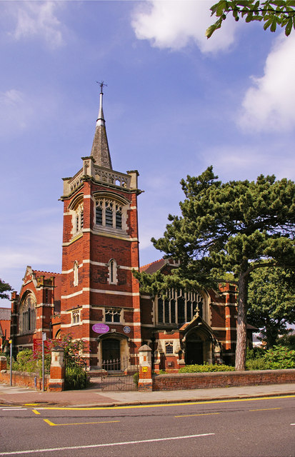 Christ Church, Friern Barnet Road, London N11, seen from the far side of Friern Barnet Road. A combined Baptist and United Reformed Church.